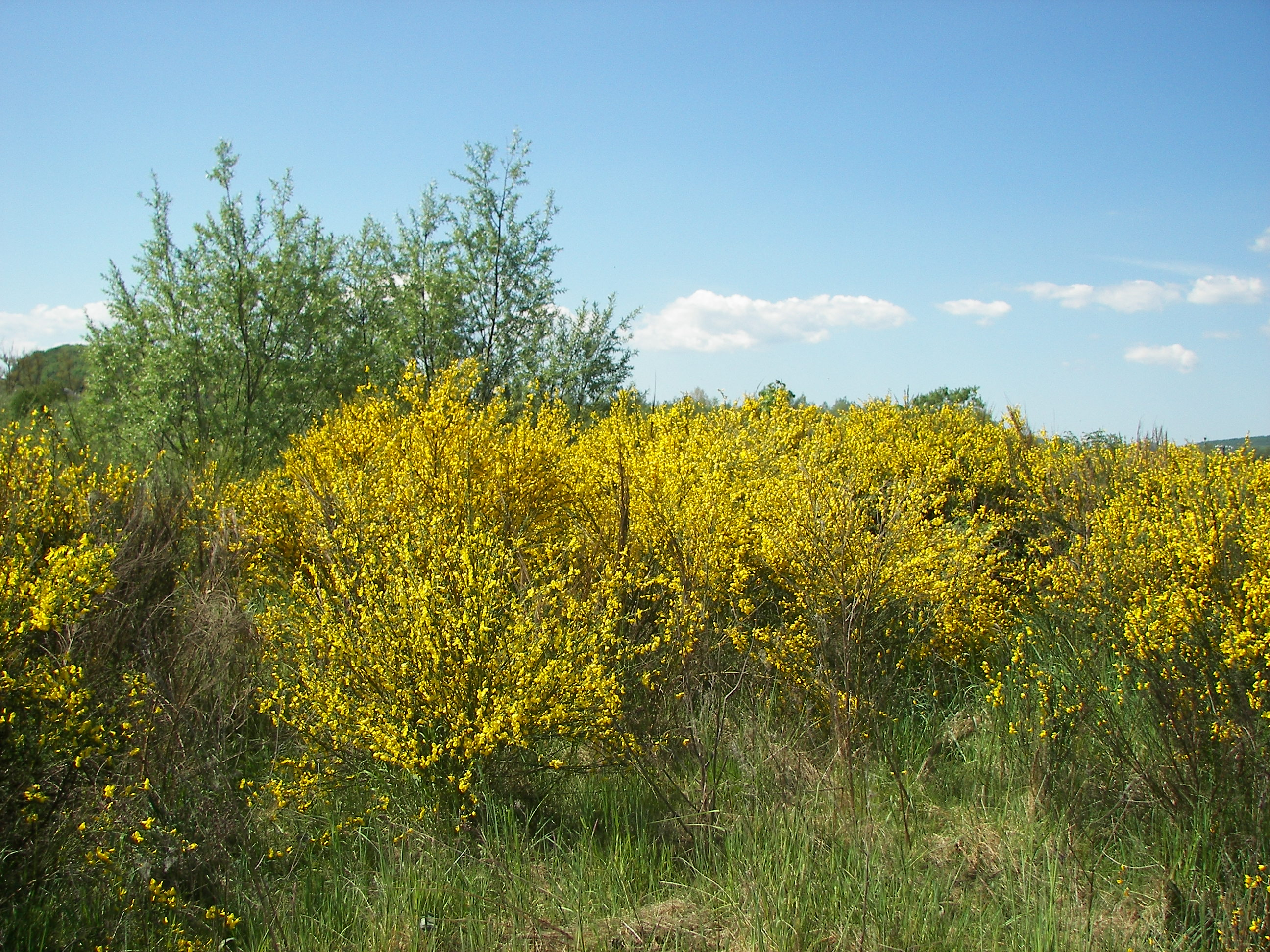 Common Broom (Cytisus scoparius), Location: Lahntal-Goßfelden, Hesse, Germany